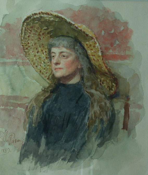 Portrait of painter Elizabeta Nikolayevna Zvantseva. Watercolour on paper. 34 × 27.5 cm. National Gallery of Armenia, Yerevan.